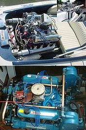 Ford FE marine installation examples